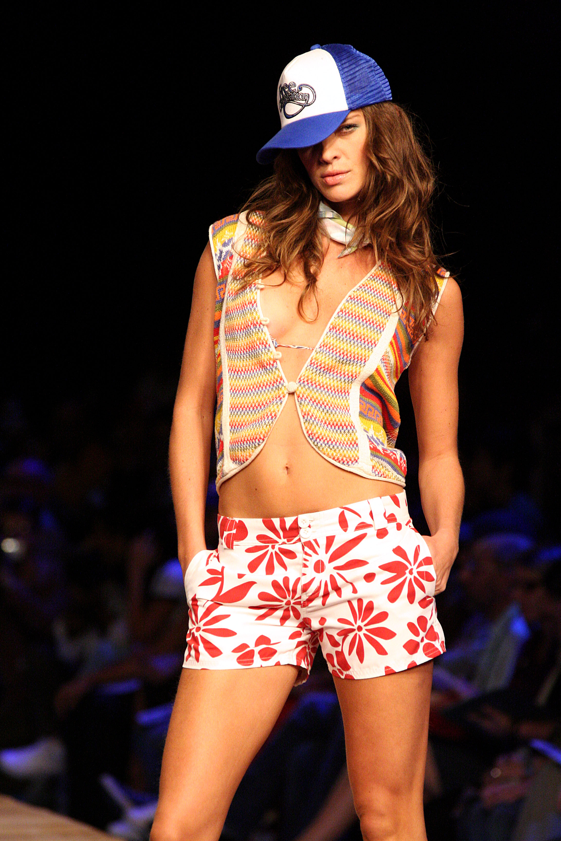 Brazillian model Letícia Birkheuer.